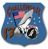 Squadron "Challenger" 17 logo